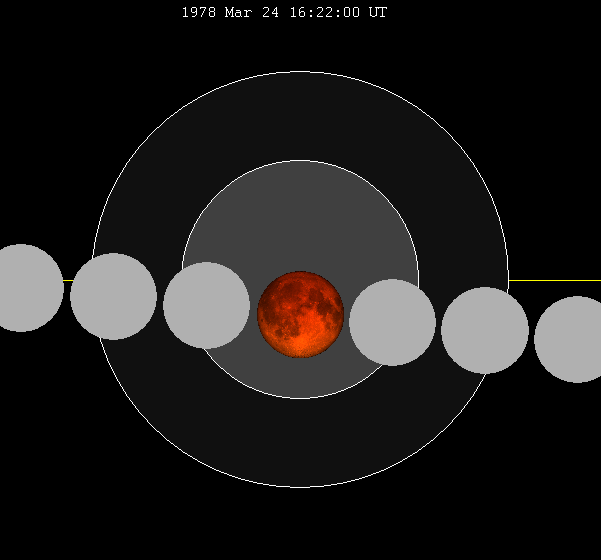 March 1978 lunar eclipse chart of moon's total lunar eclipse path through the earth's shadow. thumb